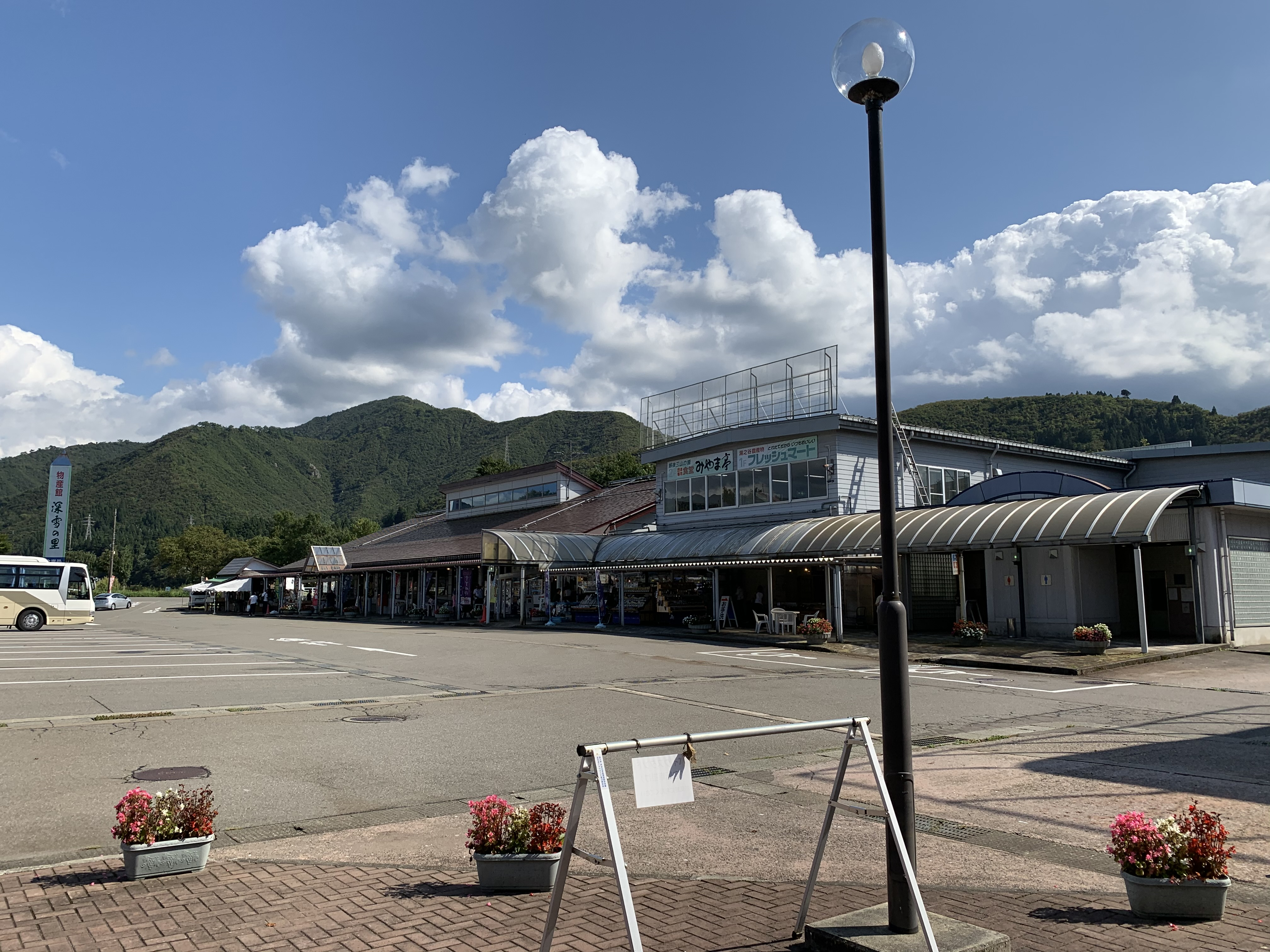 Yunotani, Michi no Eki (Roadside Station), Niigata, Japan. Took photo in September 2019.